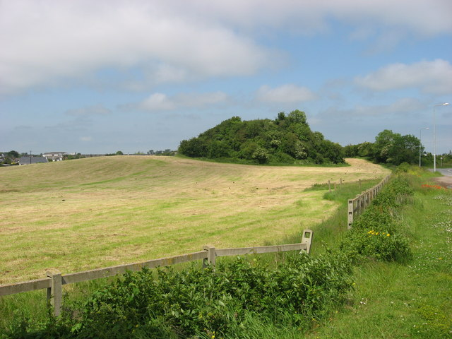 Castle Guard, Dawsonsdemesne, Ardee Anglo-Norman motte erected c. 1185 by Gilbert Pippard who was granted the barony of Ardee by Prince John.